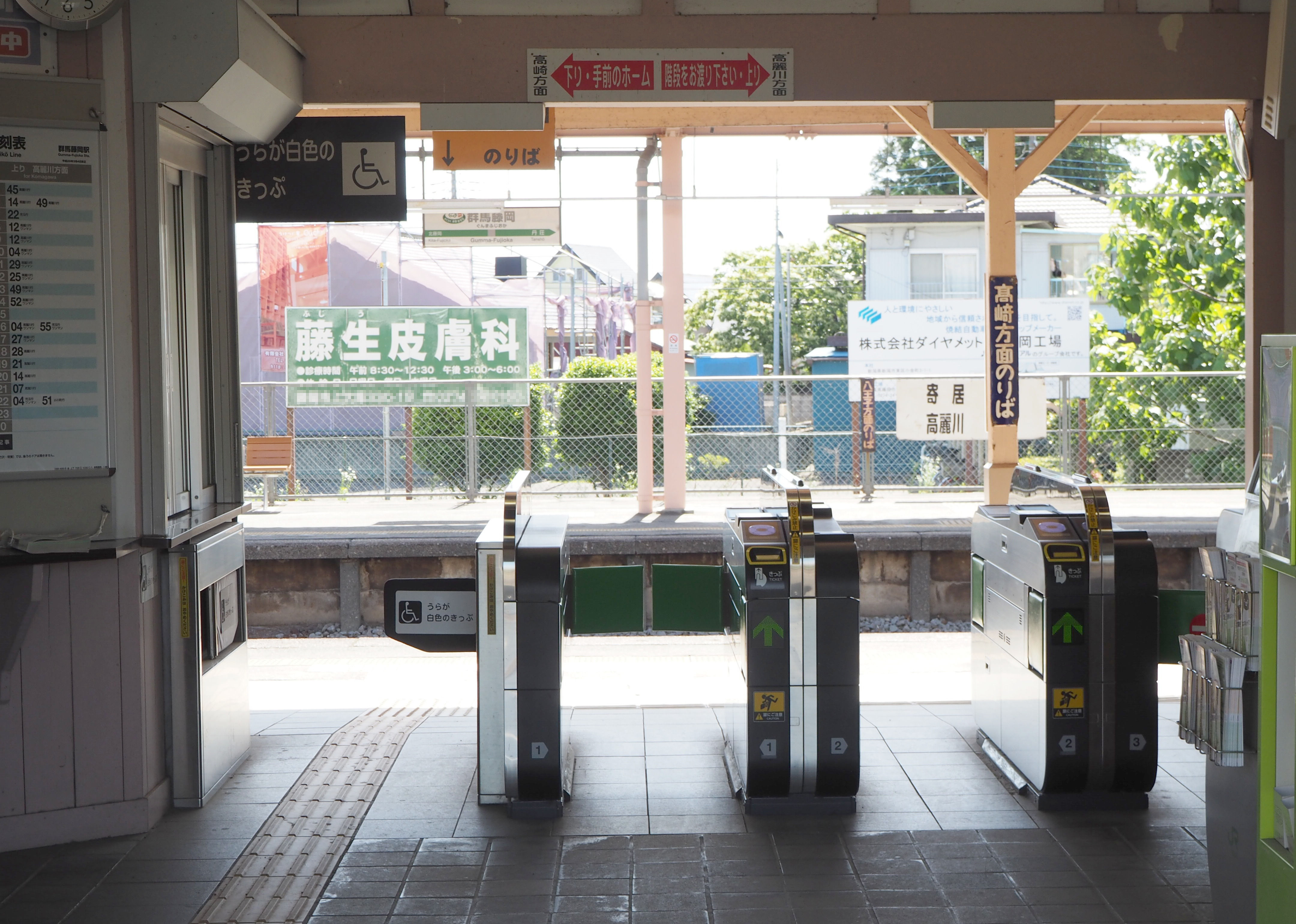 Ticket barriers of Gunma-Fujioka Station